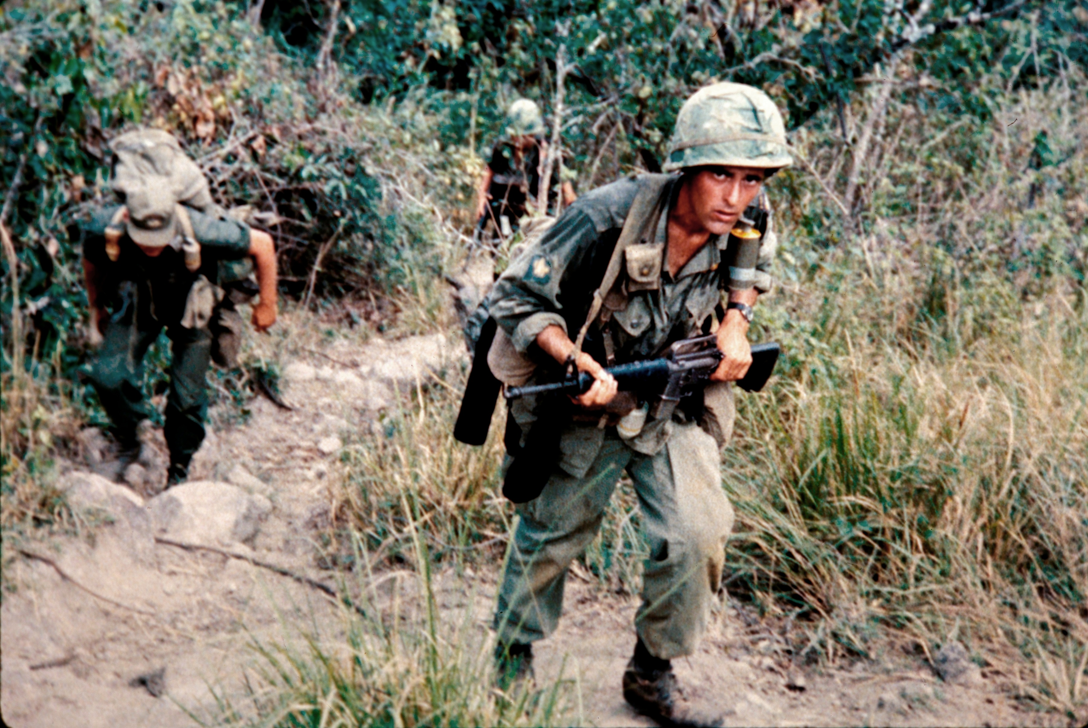 Soldiers of Company C, 2nd Battalion, 502nd Infantry, 1st Brigade, 101st Airborne Division ascend a steep hill in search of the Viet Cong. The Company was conducting search and destroy missions as a part of Operation Harrison in the mountainous terrain around Tuy Hoa, Republic of Vietnam